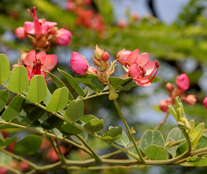 Ceylon senna or red cassia Cassia roxburghii in Hyderabad, India.